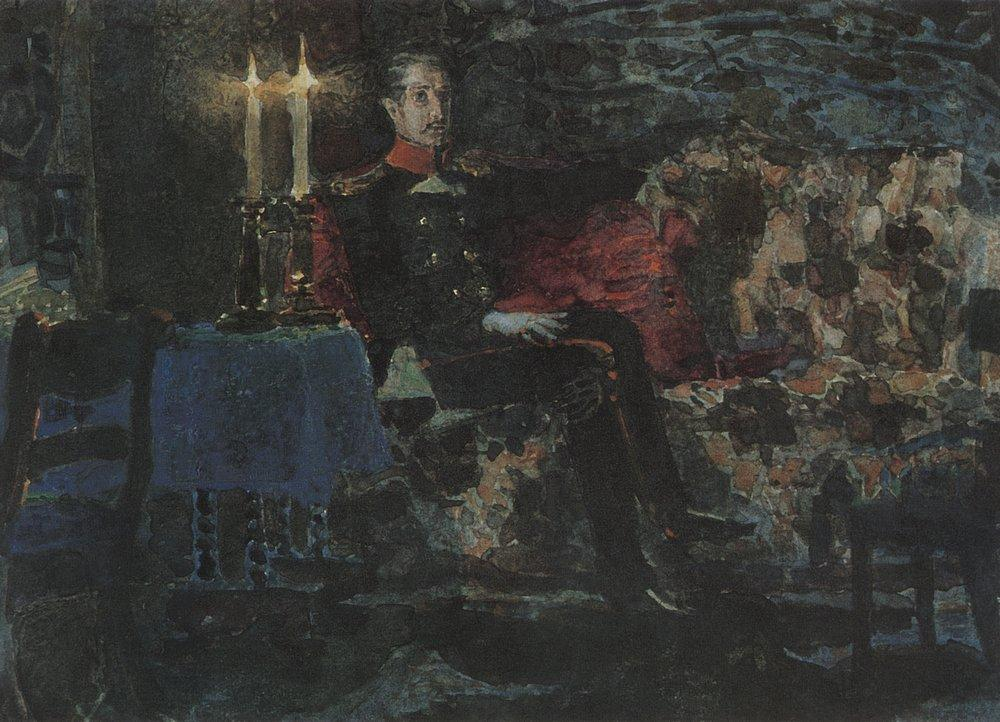 Painting of Mikhail Vrubel "Pechorin". An illustration to A Hero of Our Time novell by Lermontov.